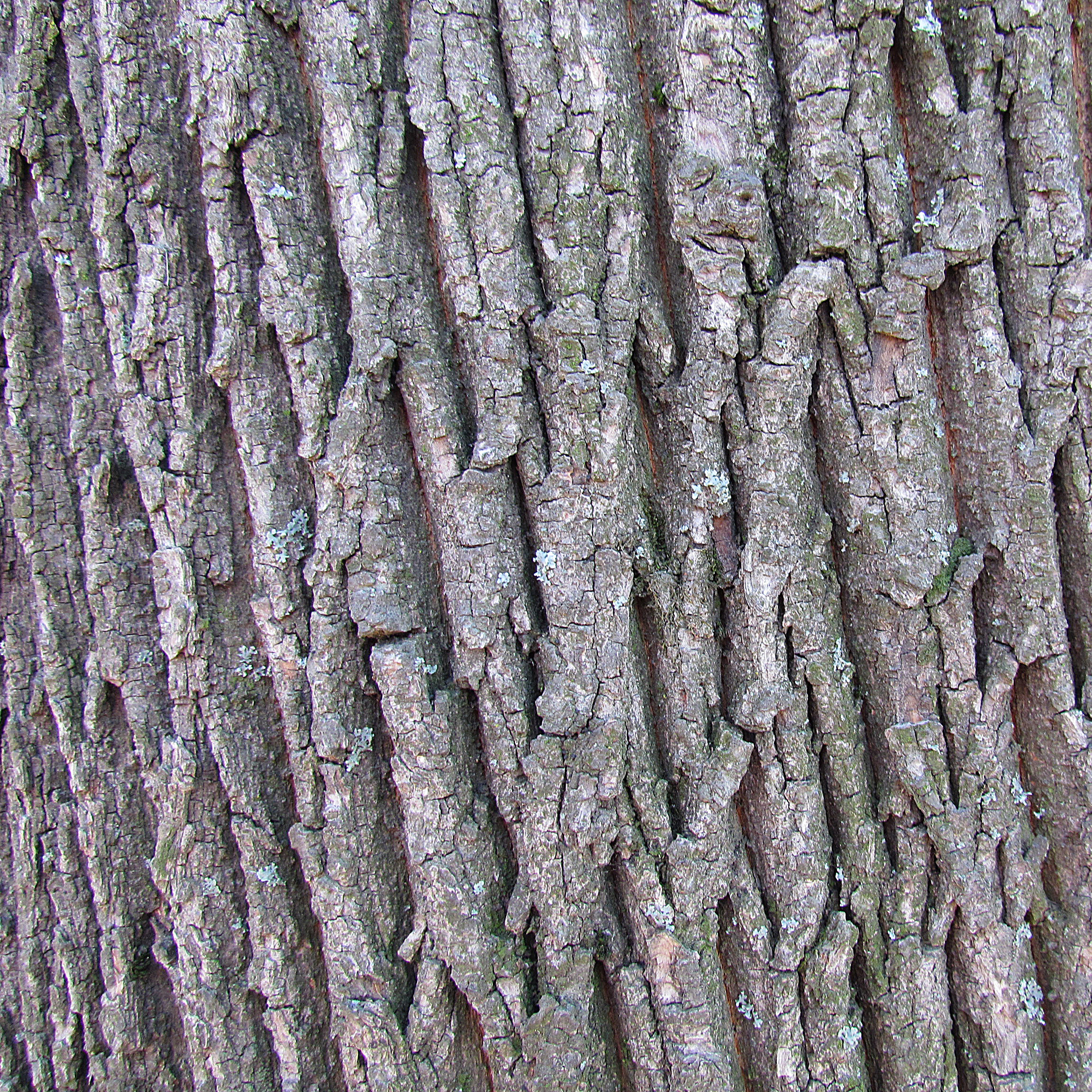 Acer platanoides bark